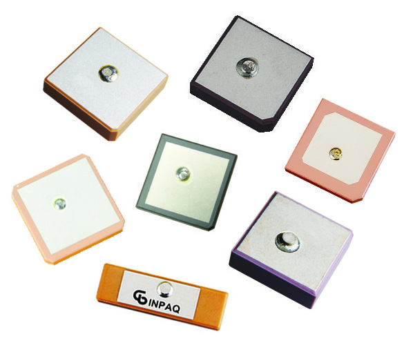 INPAQ Technology Co., Ltd.